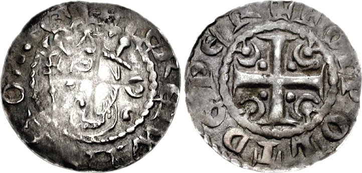 Scotland . William I ‘the Lion’. 1165-1214. AR Penny (1.43 g, 9h). Crescent & pellet coinage. Perth mint; Folpolt, mintmaster. Struck 1174-1180. Crowned head left; cross-scepter to left +FOLPOLT DE PER, short cross . Burns 2; SCBI 35 (Ashmolean), 32 (same obv. die); SCBC 5024. EF, iridescent toning. Choice and rare.